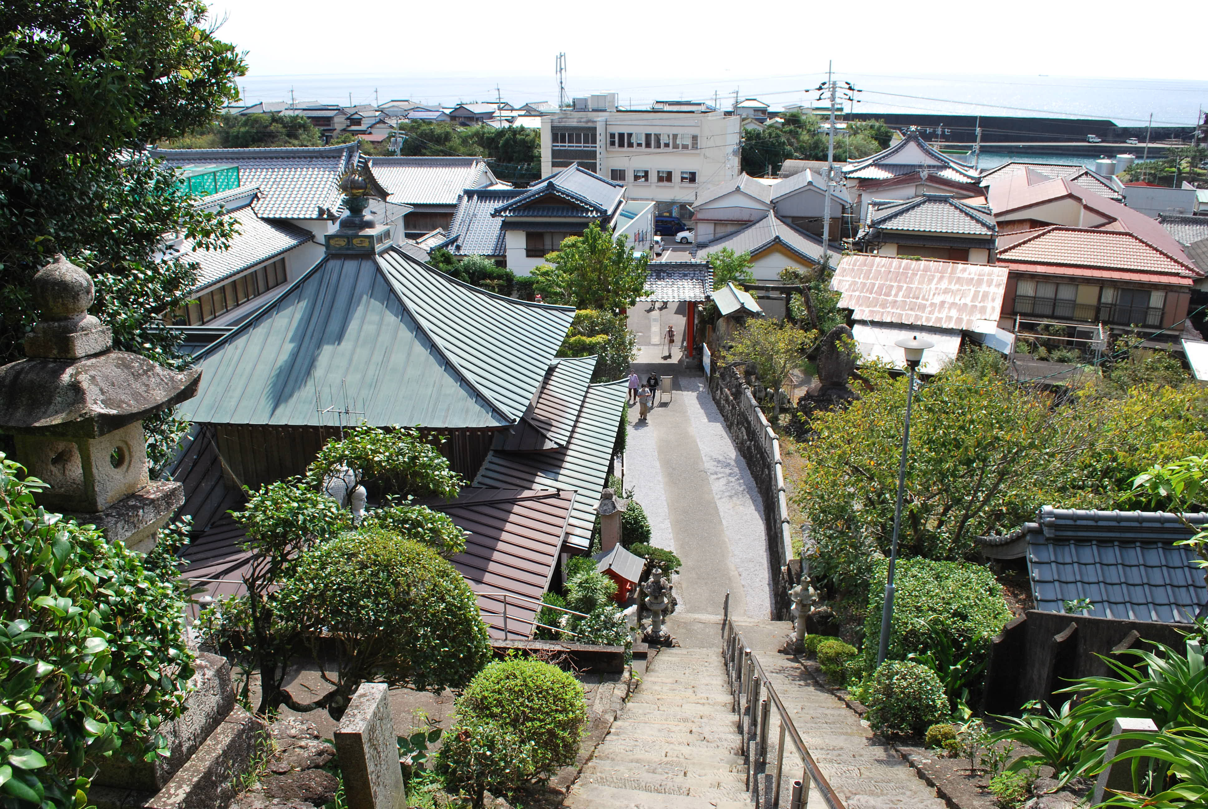 View from Shinshō-ji